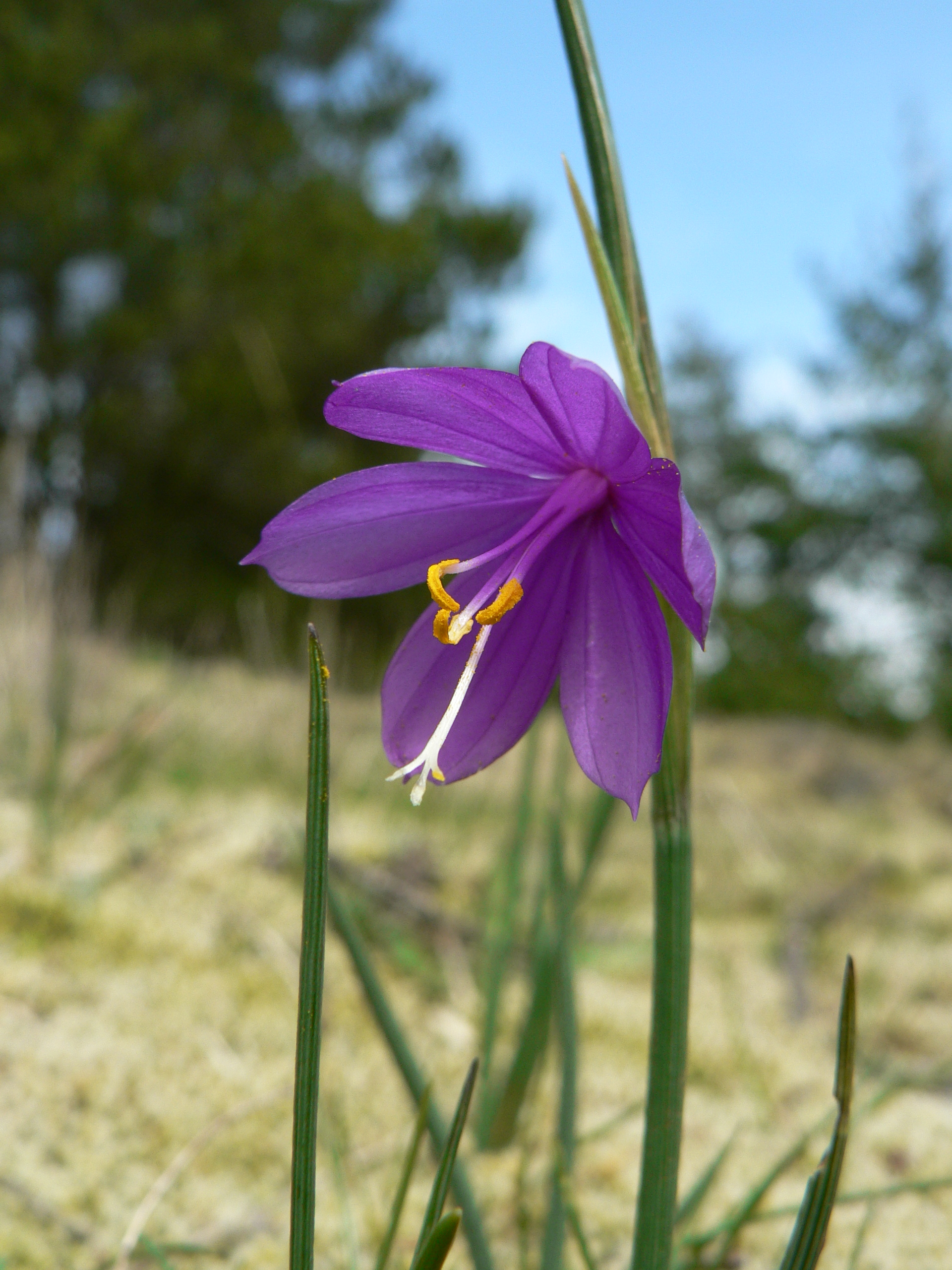 Douglas' Grass-widow, Purple-eyed Grass